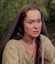 Cropped screenshot of Martha Scott from the trailer for the film The Ten Commandments.